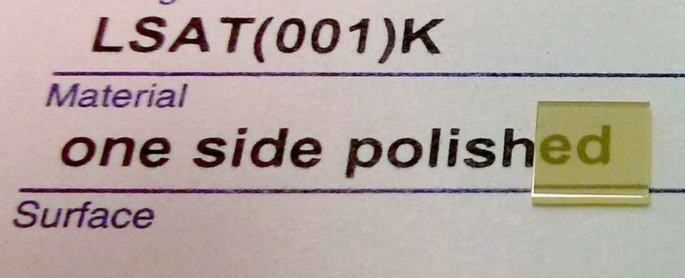 An LSAT (lanthanum aluminate - strontium aluminum tantalate) single-crystal ceramic substrate with a surface orientation of (001). This 5x5x0.5 mm, single-side polished wafer was manufactured by Crystec GmbH (Berlin, Germany)